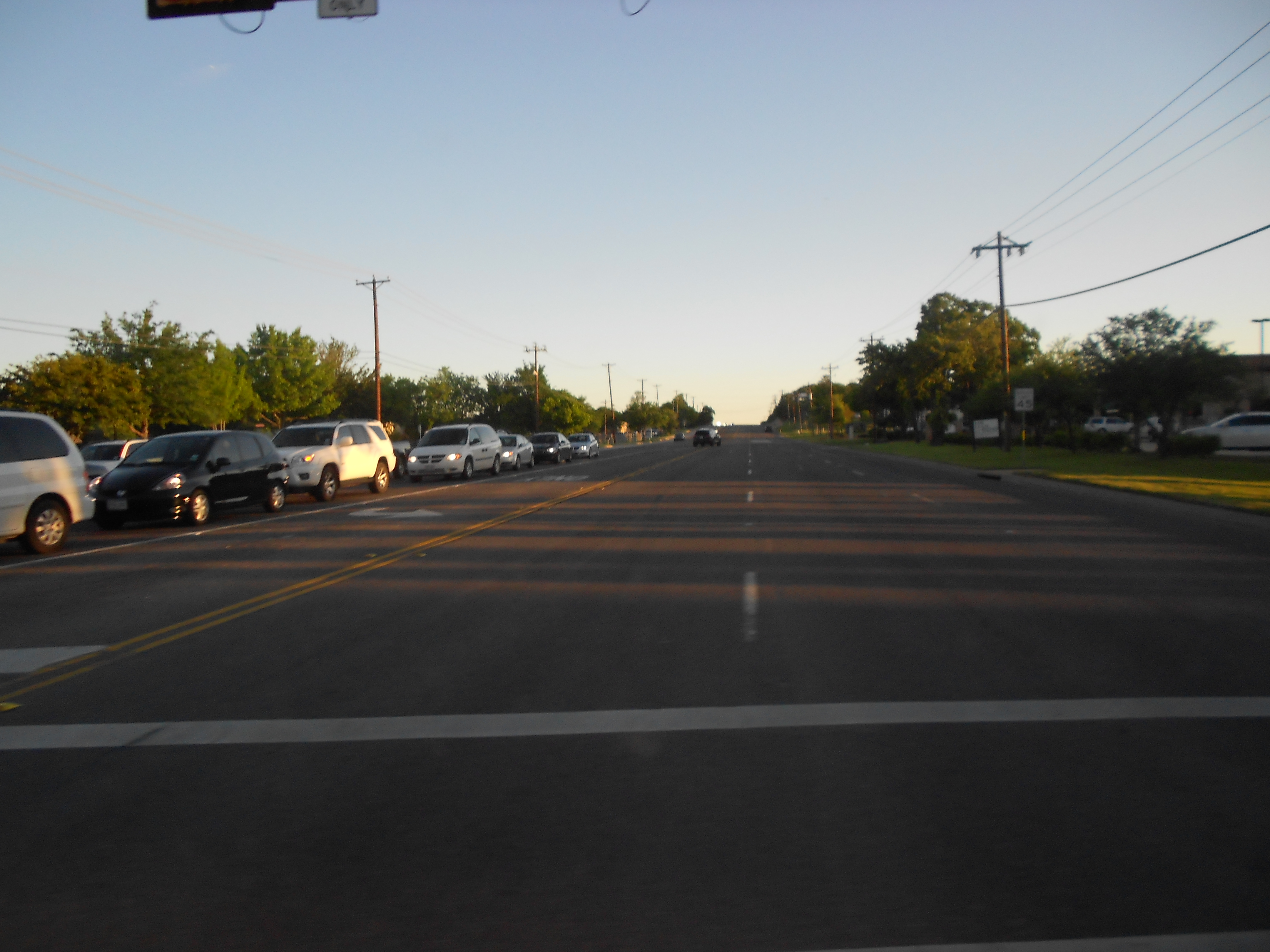 An intersection between Farm to Market Road 1938 (Davis Boulevard) and Continental Boulevard, in Southlake, Texas.